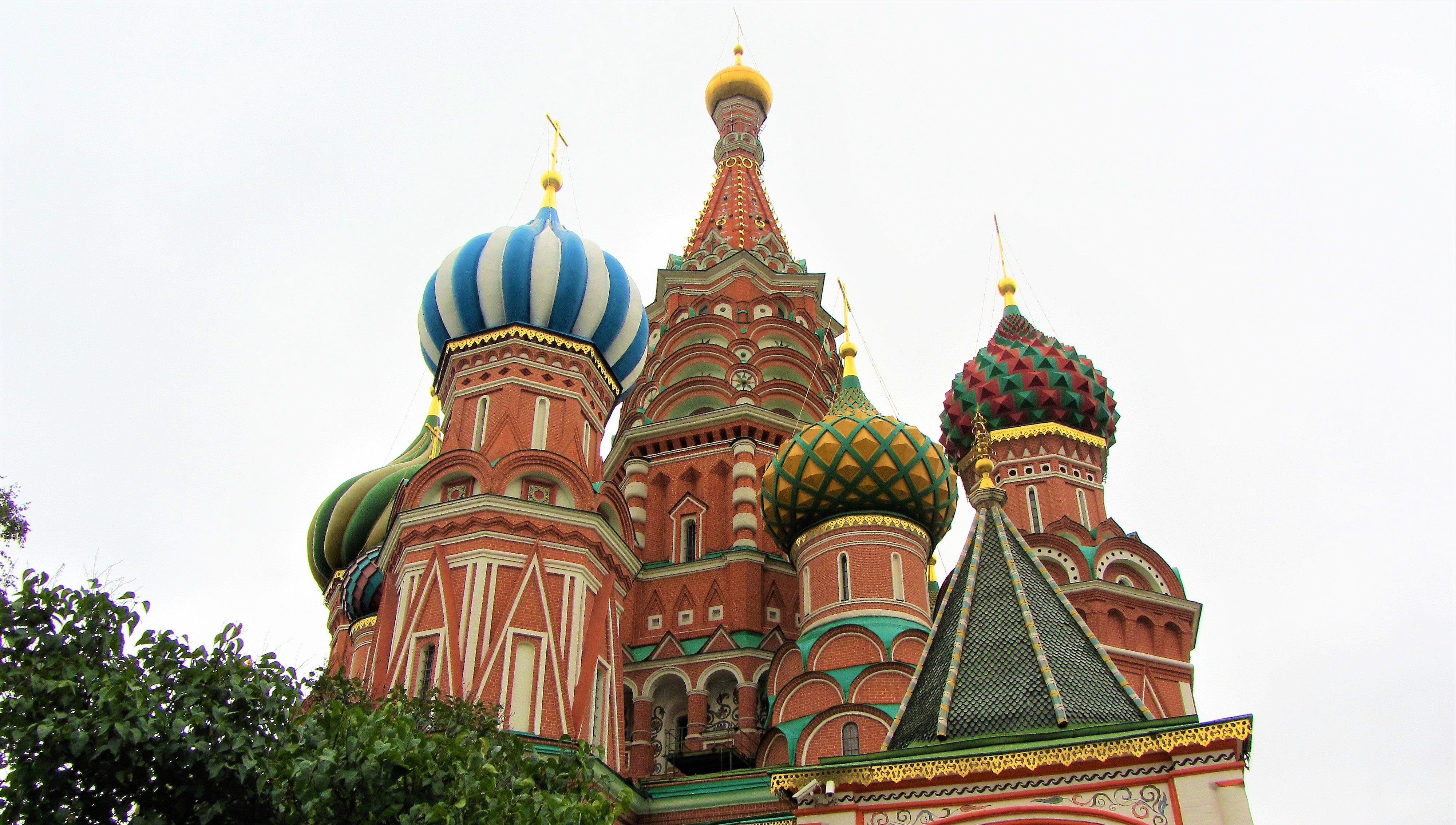 St. Basil's Cathedral